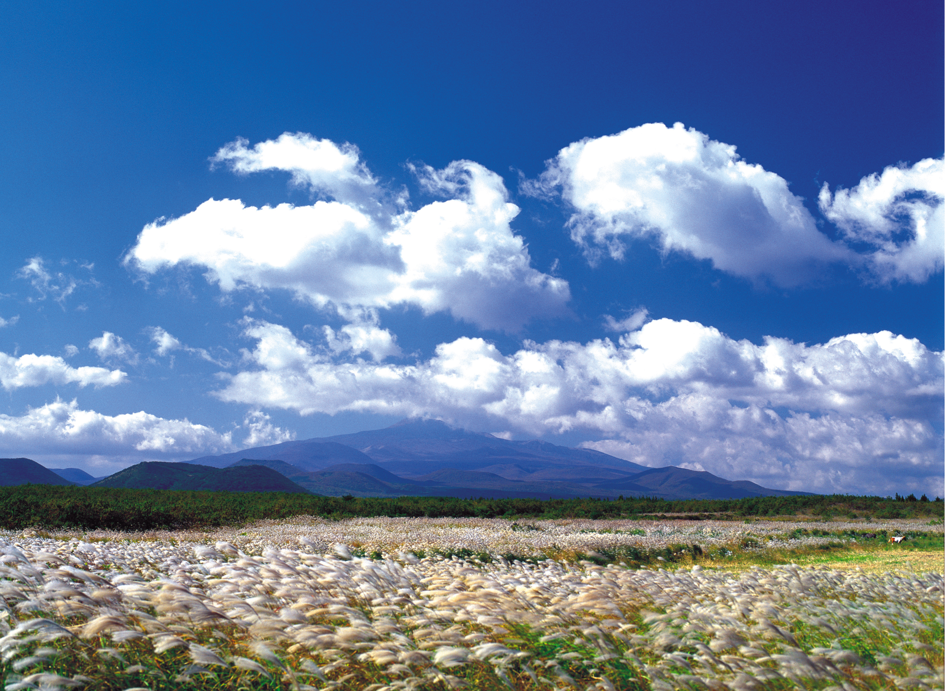 Jeju-do, a Special Self-Governing Province is the only special autonomous province of Korea, situated on and coterminous with the country's largest island.